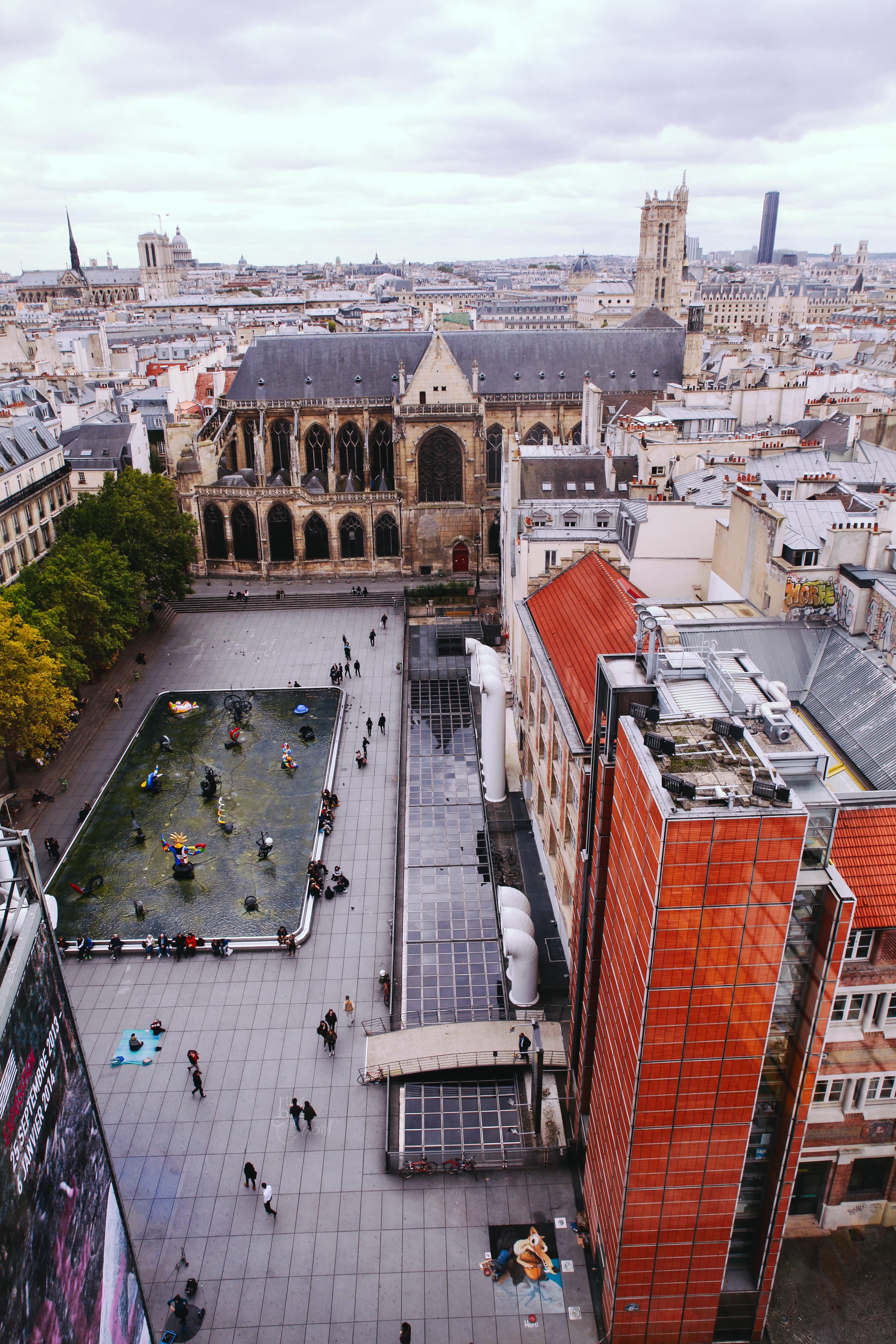 Place Igor-Stravinsky as seen from the Centre Georges Pompidou, Paris.